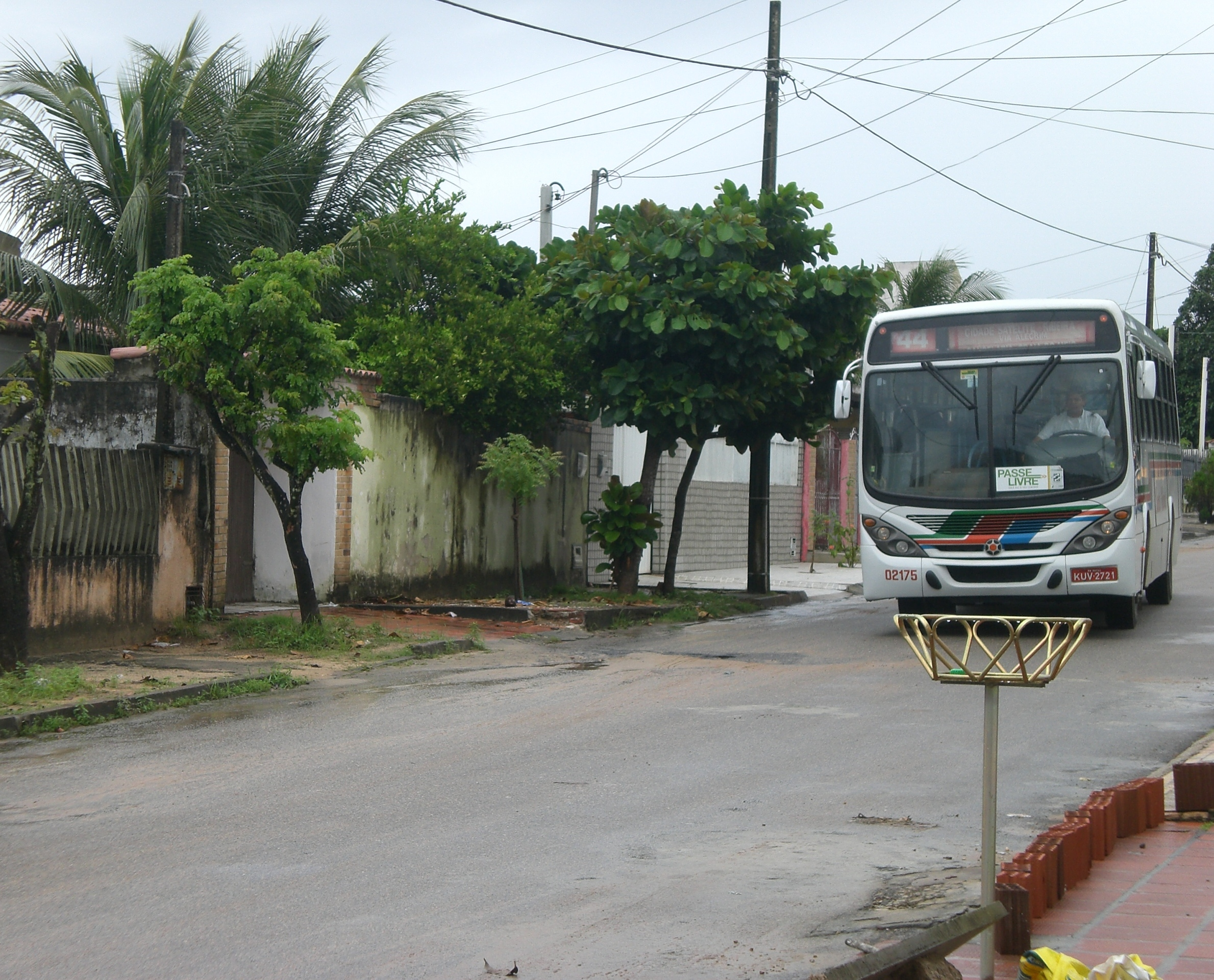 Bus in Natal, Rio Grande do Norte, Brazil, in neighborhood Pitimbu, photographed in June 29, 2011.